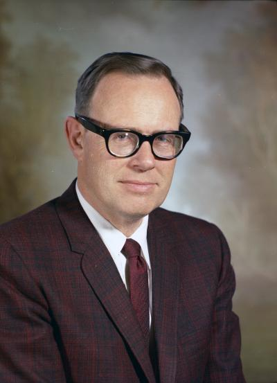 Senator Nat Washington, 1967